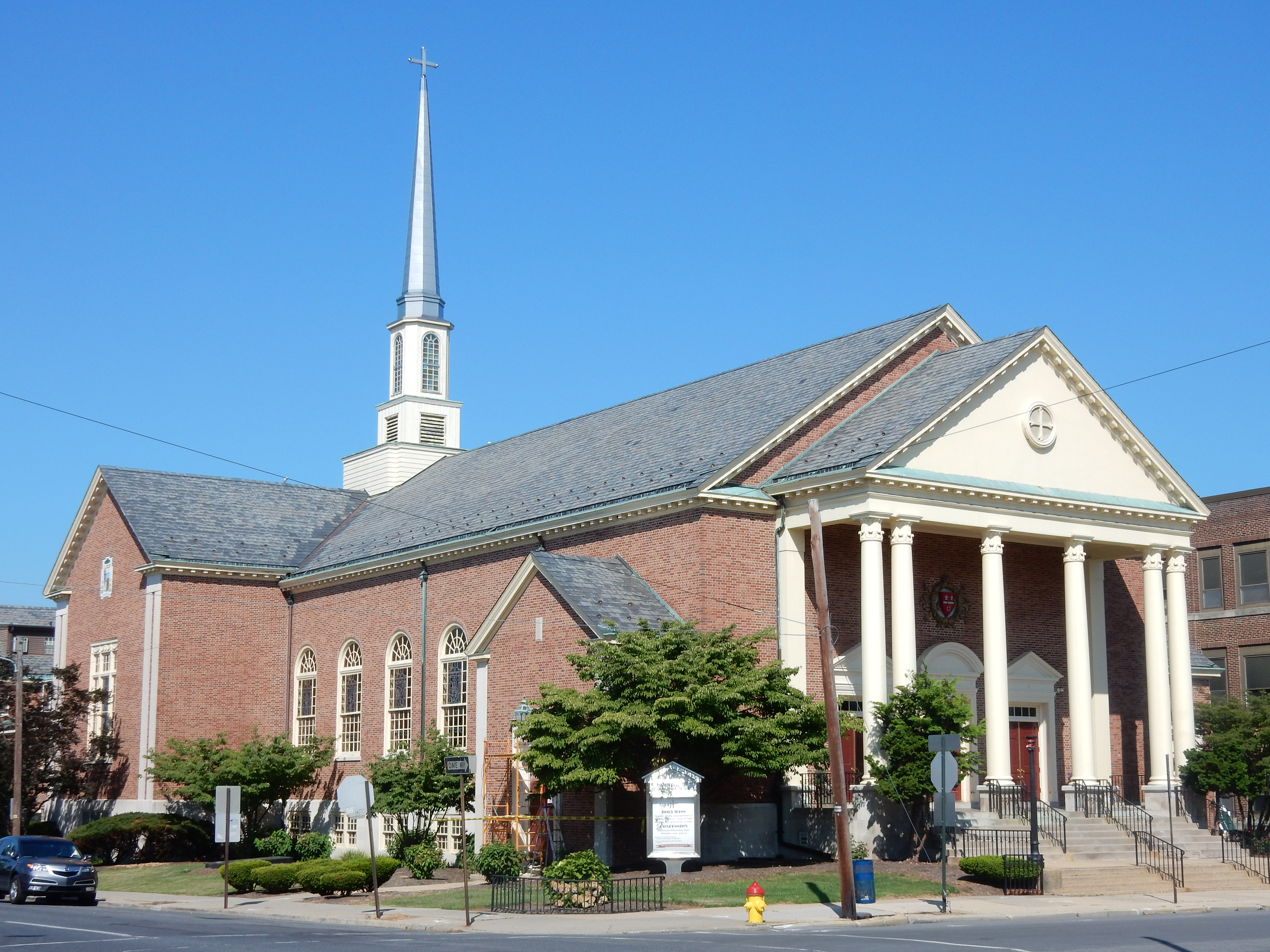 Cathedral of Saint Catharine of Siena, 1825 Turner St., Allentown, Pennsylvania. View from the corner of W. Turner and N. 18th Sts.